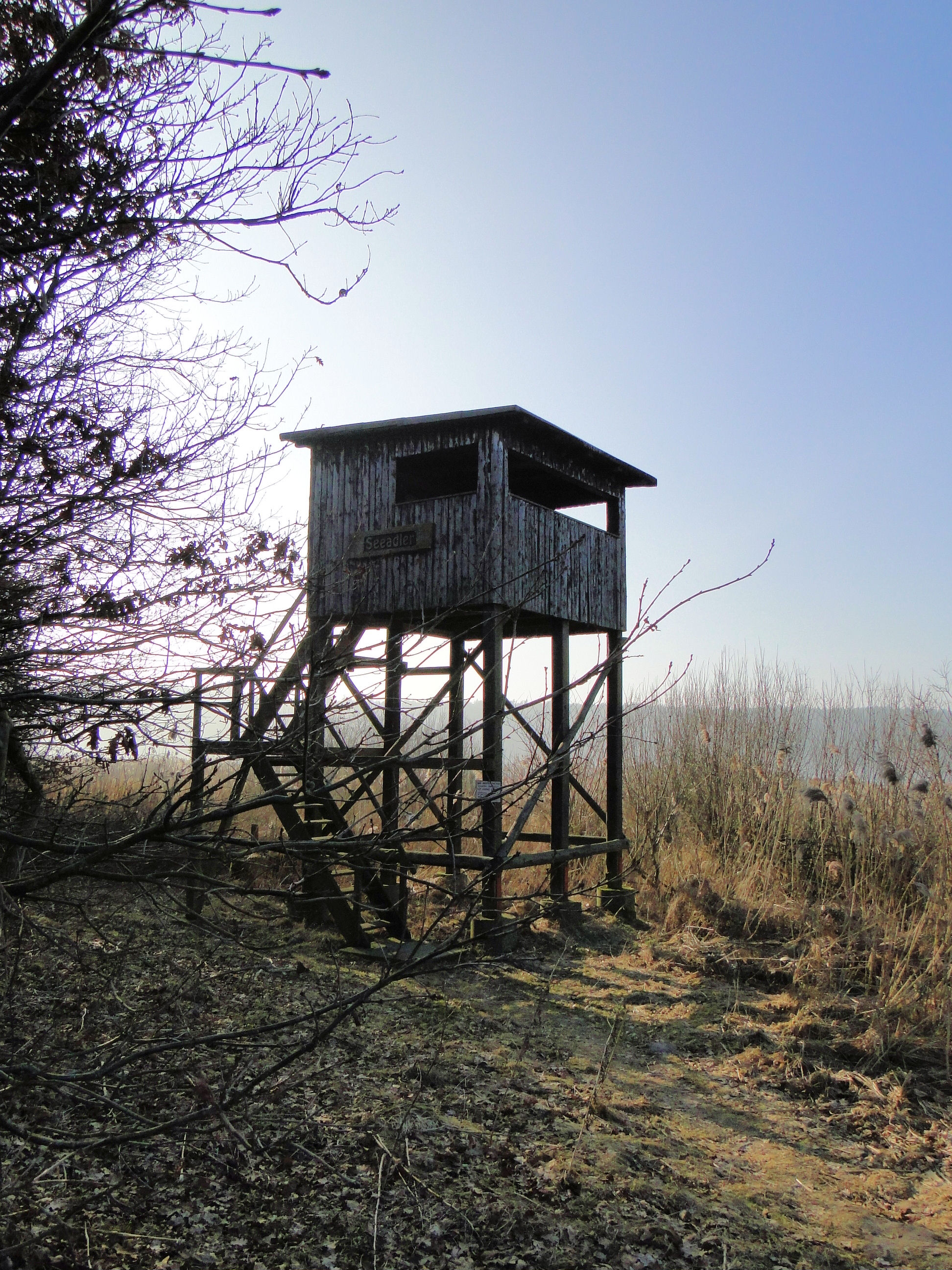 View tower in nature reserve Krakower Obersee in Glave, district Güstrow, Mecklenburg-Vorpommern, Germany